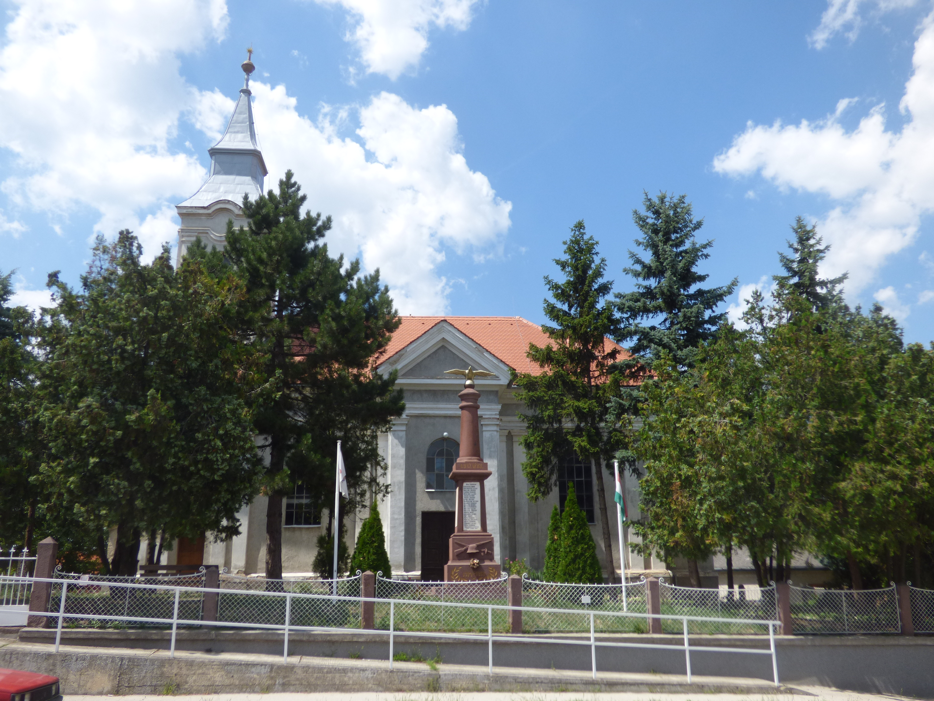 Papkeszi temploma